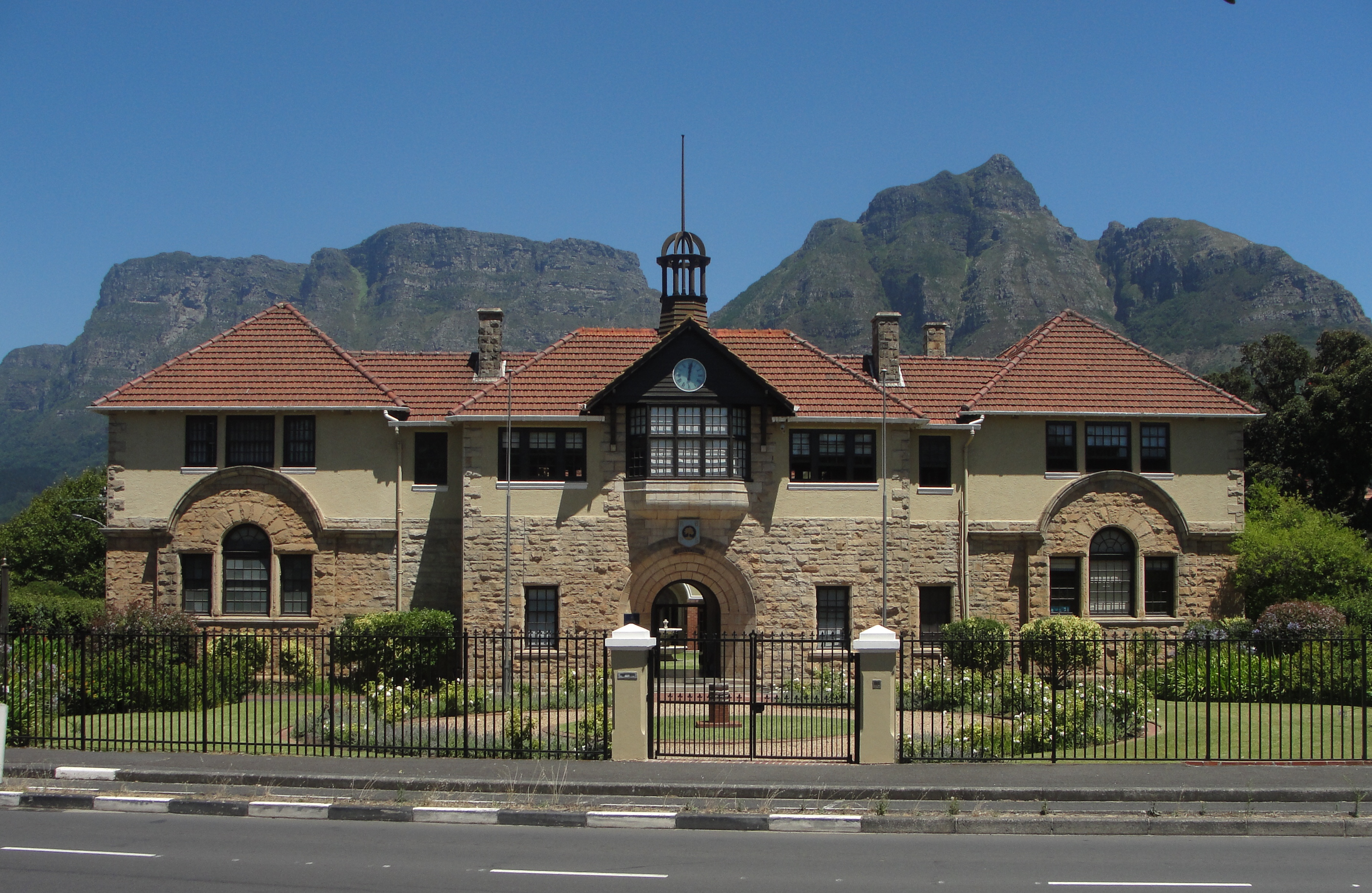 Rondebosch Boys' Preparatory School in Cape Town, South Africa This media shows a South African Protected Site with SAHRA file reference 9/2/111/0119.